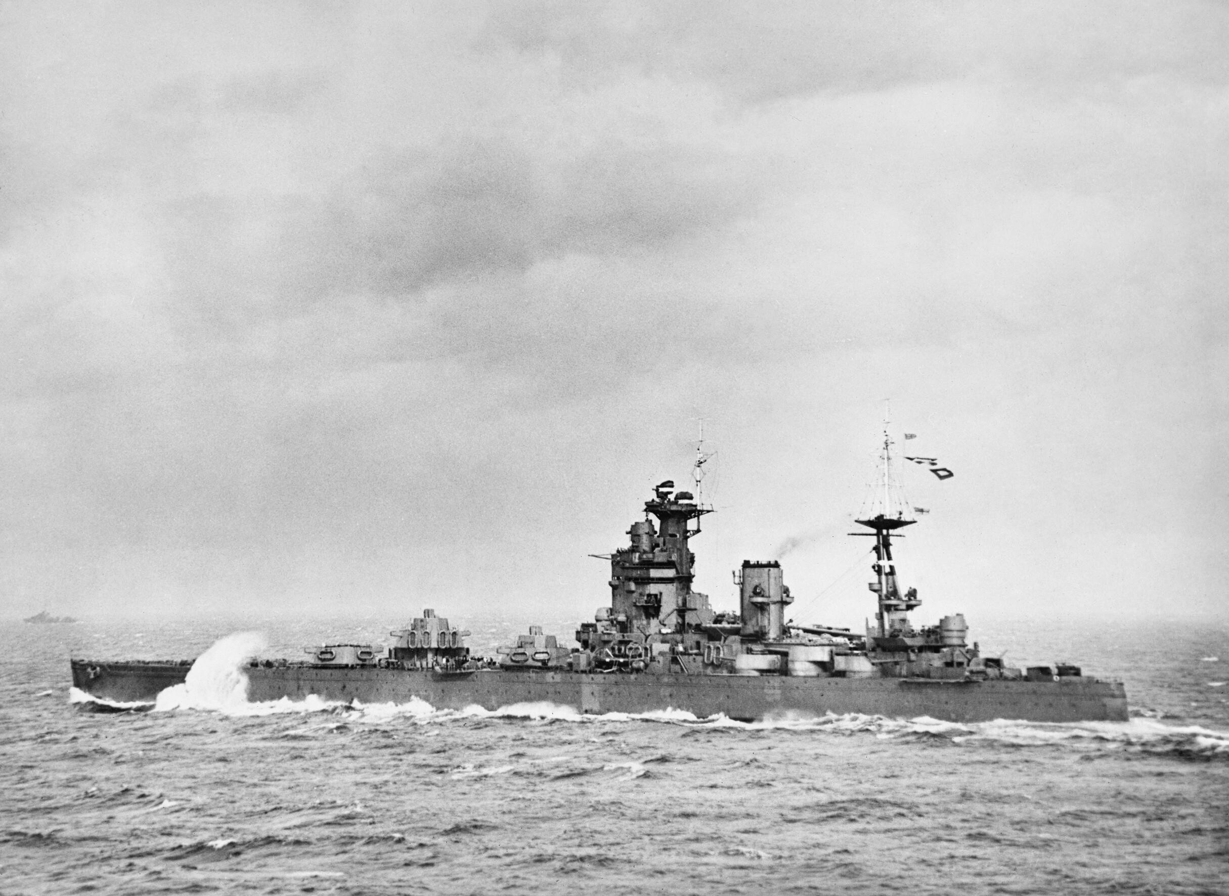 HMS NELSON at sea in the Firth of Forth, September 1940. HMS NELSON seen from her sister ship HMS RODNEY as they proceeded to sea from the Firth of Forth. A wave is breaking over the bow of NELSON.